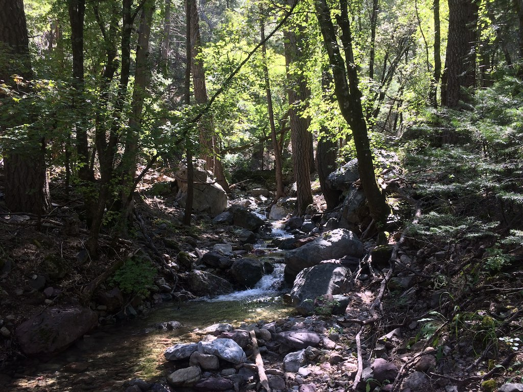 Ramsey Canyon | Sierra Vista | AZ | 2015-10-01at12-01-191